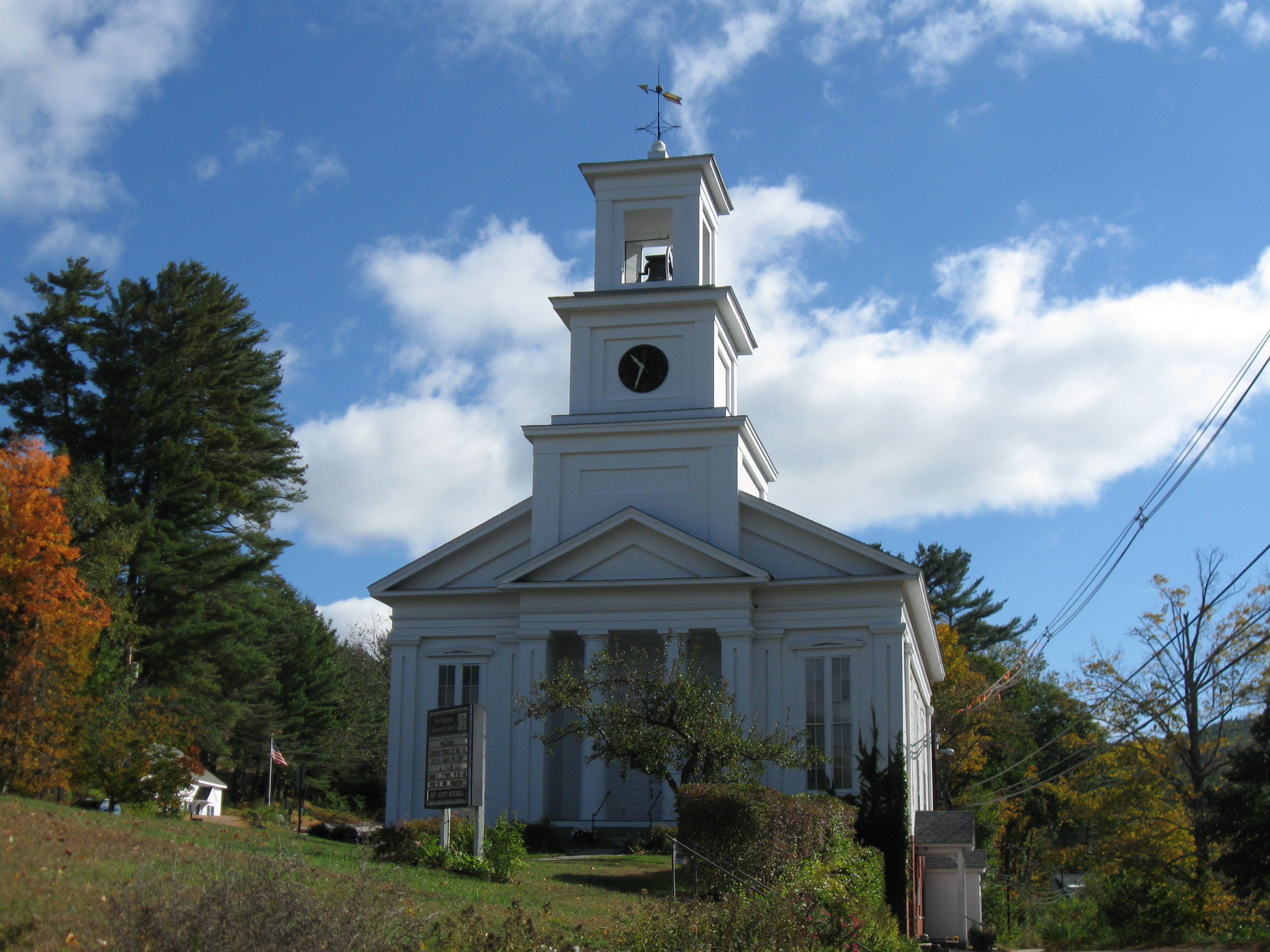 New Hampton Community Church — in New Hampton, Belknap County, New Hampshire. On the National Register of Historic Places.